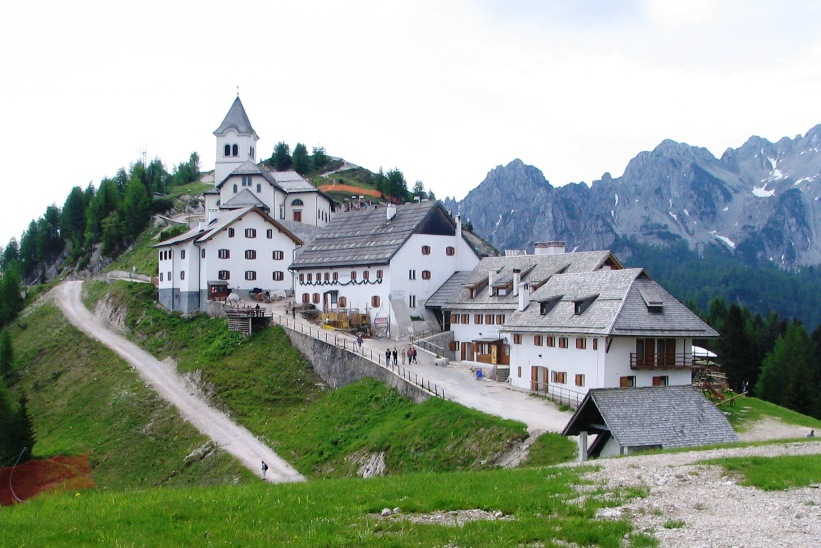 Monte Lussari above the town of Tarvisio in the Province of Udine, Italy